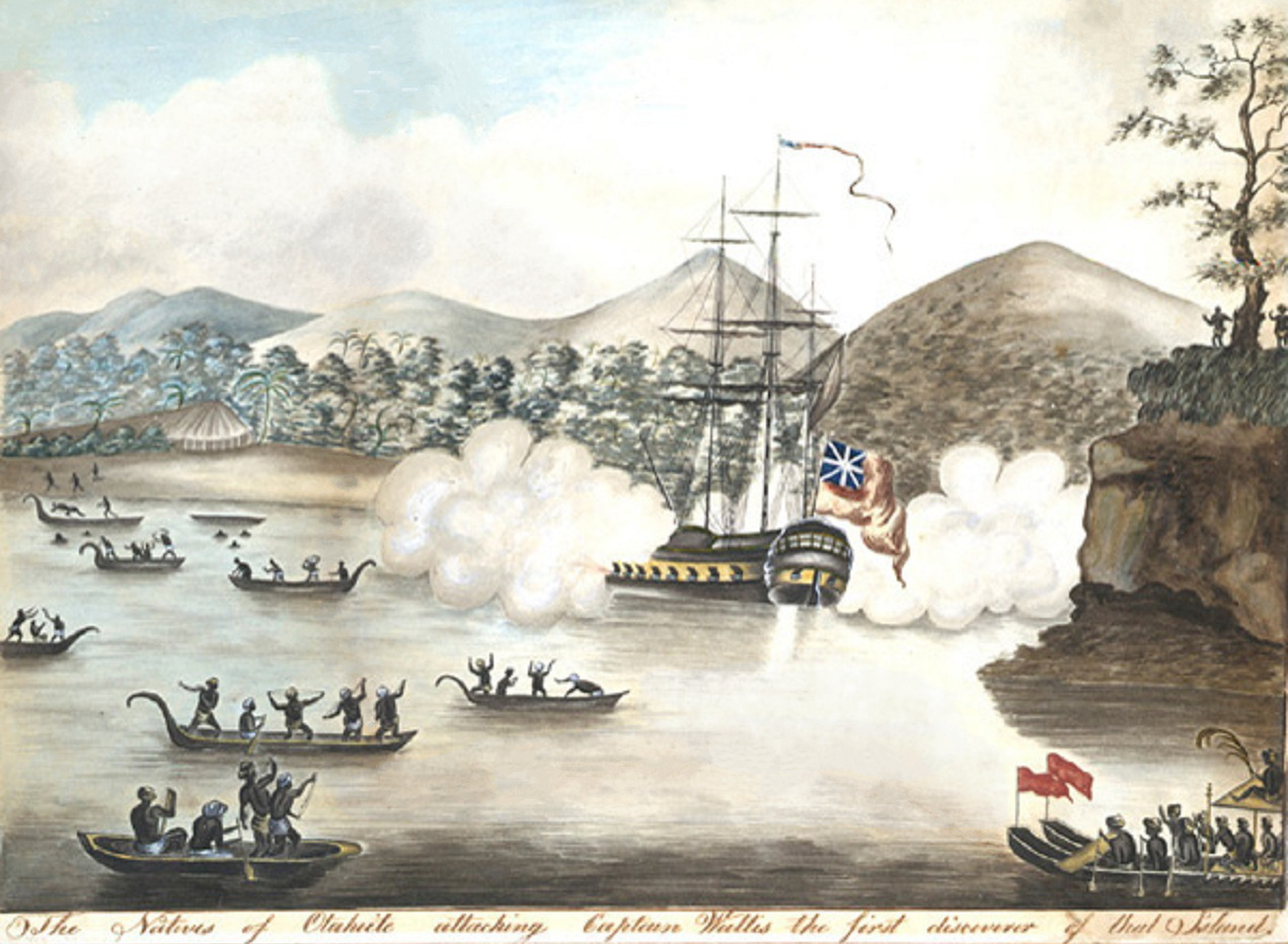 The Natives of Otaheite Attacking Captain Wallis the First Discoverer of That Island by an unknown artist